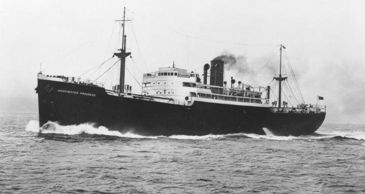 5,620 GRT cargo ship Manchester Progress, built by Blytheswood Ship Building Co of Glasgow in 1938 for Manchester Liners. She was scrapped in 1966 in Yugoslavia.